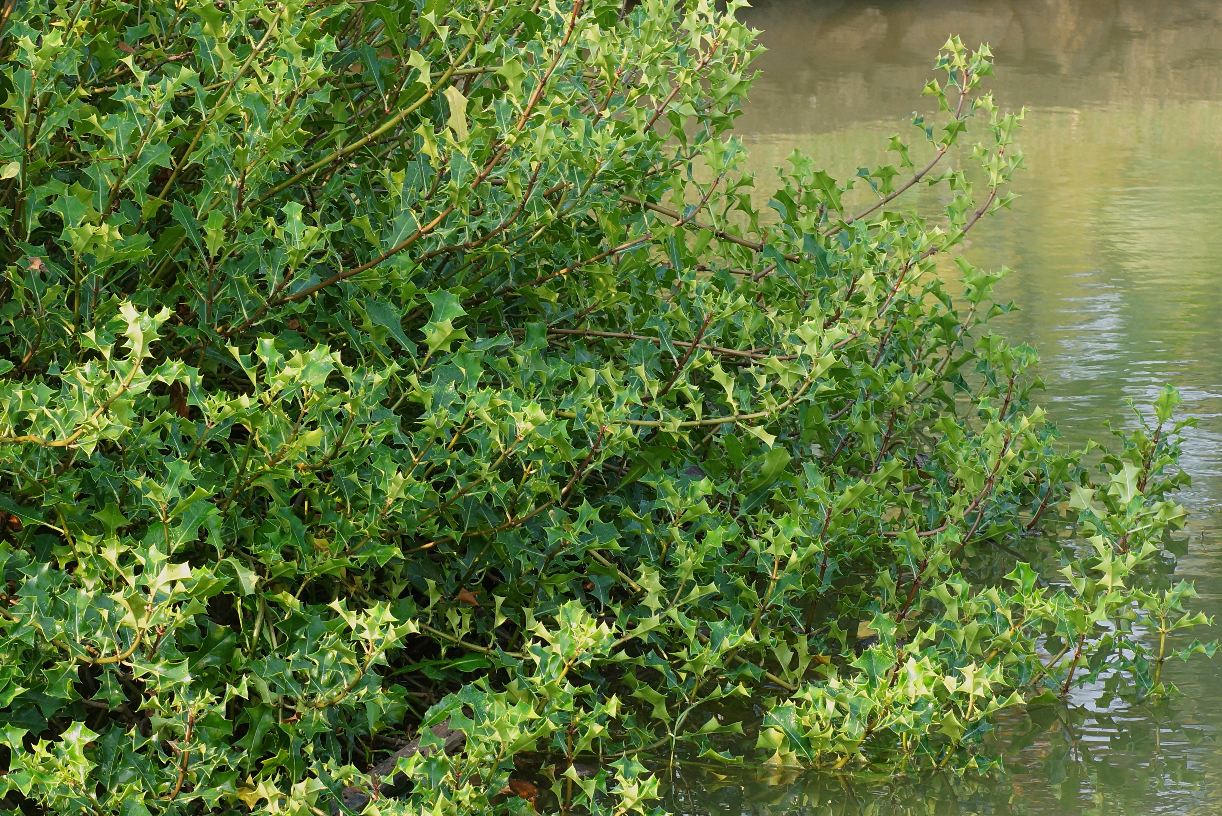 Acanthus ilicifolius (common names Holly-leaved acanthus, Sea Holly, and Holy Mangrove) is a species of plant in the genus Acanthus, native to India and Sri Lanka.